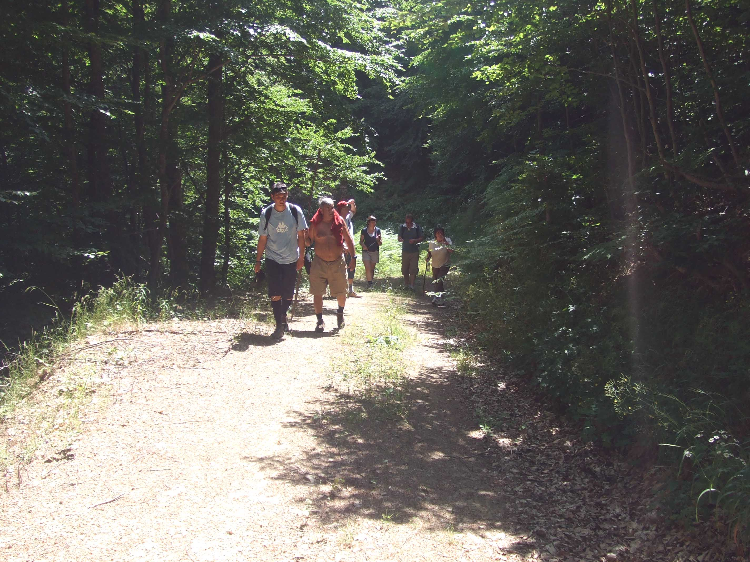 Planinarenje.jpg